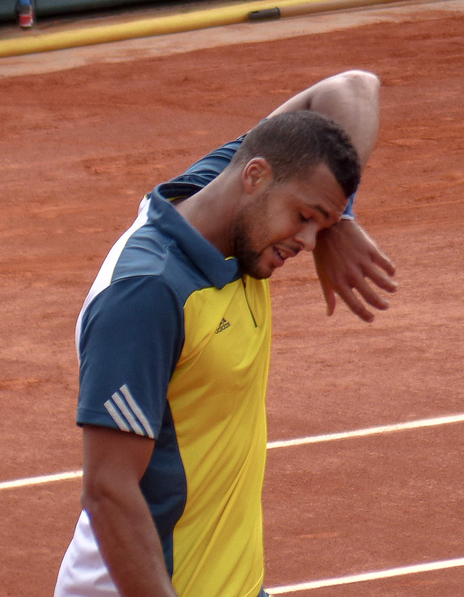 2ème tour Roland Garros 2013 : Jo-Wilfried Tsonga (FRA) def. Jarkko Nieminen (FIN)